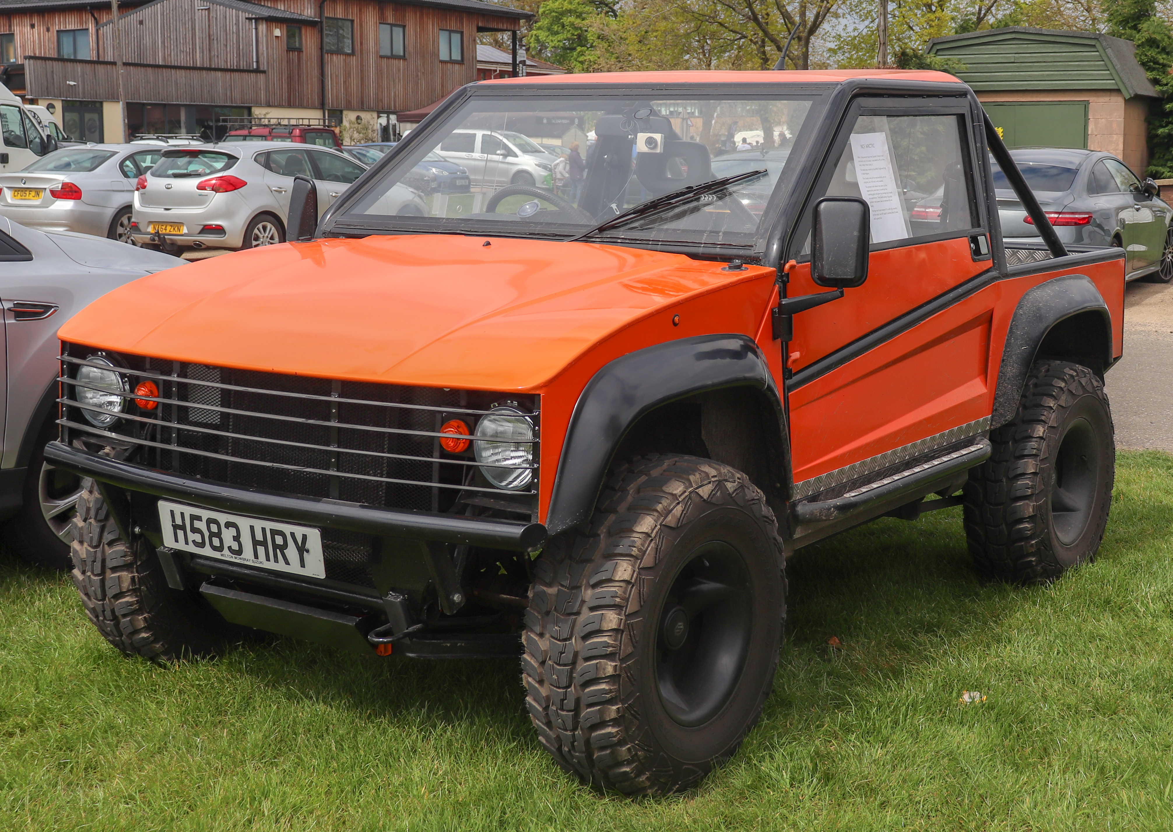 1991 (Donor) NCF Arctic 1.6 Front Taken at the Stoneleigh National Kit Car Motor Show 2019